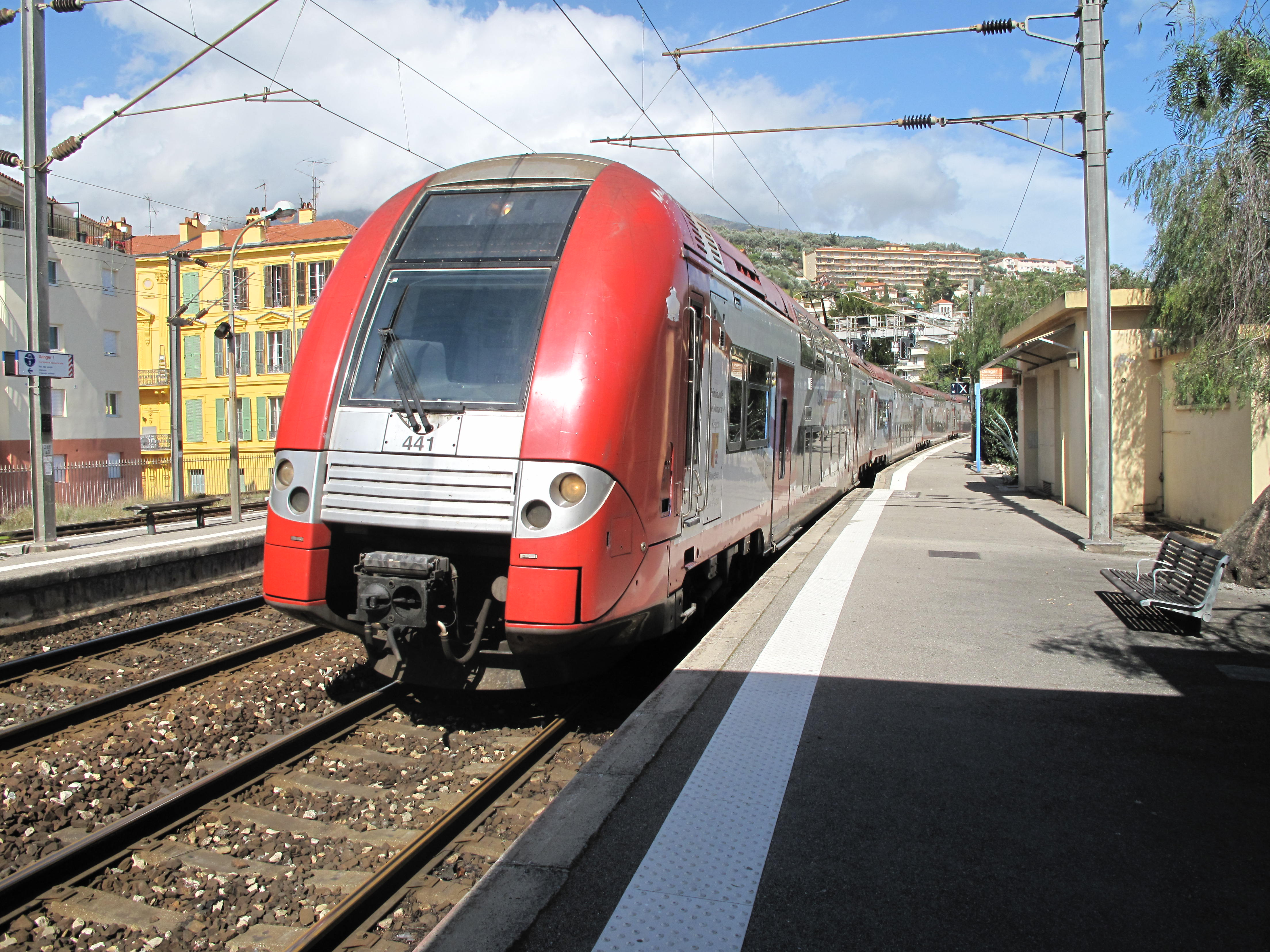 TER (Transport Express Regional) of Monaco in Menton train station (Alpes-Maritimes, France).